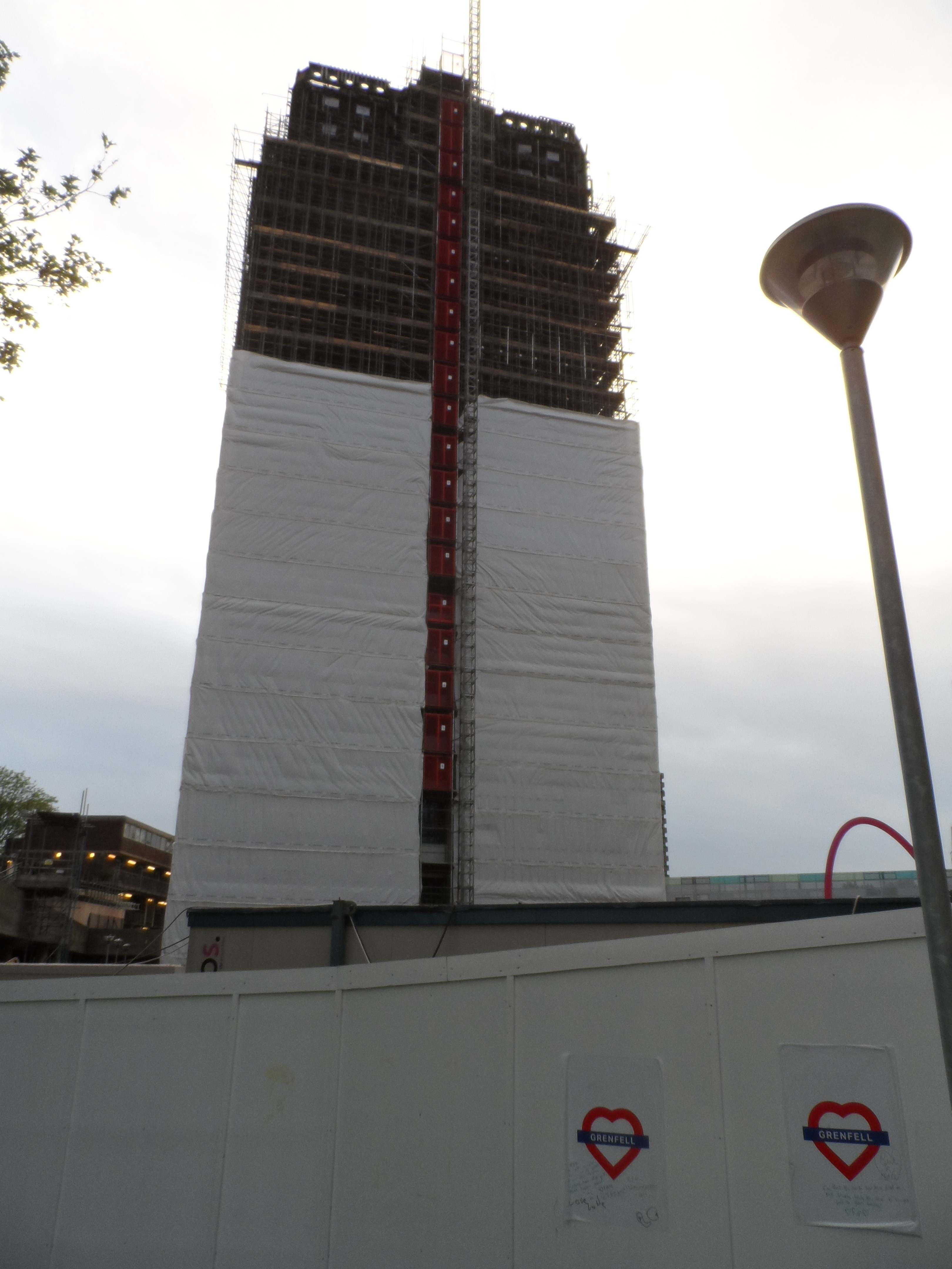 One of several views of Grenfell Tower, nearly 11 months after the fire, with scaffolding covering most of the building. This view, showing the upper floors of the east face of the tower, was photographed from outside the entrance to Kensington Leisure Centre next to the tower. Photographed on 9 May 2018.